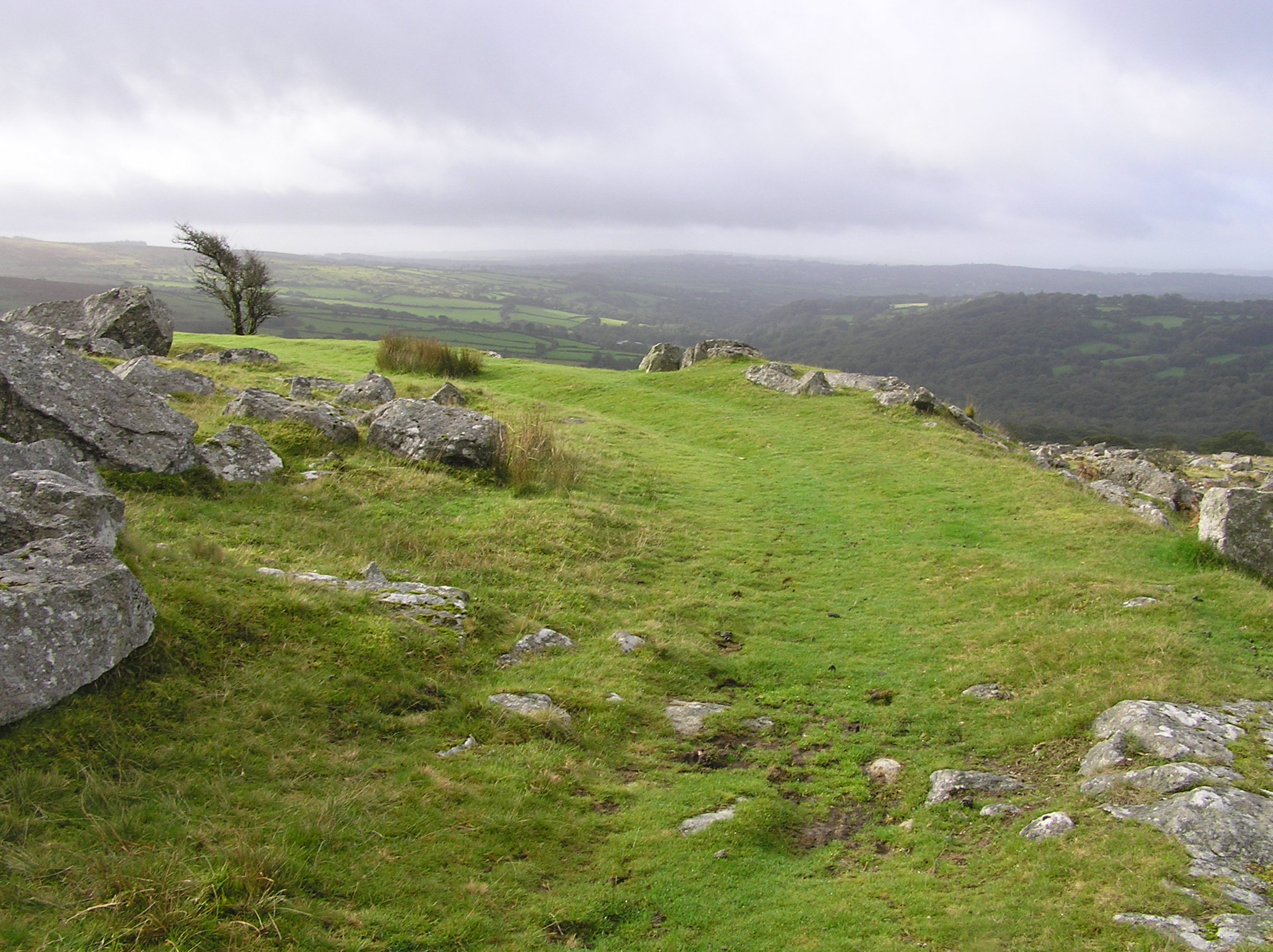 On Plymouth & Dartmoor Railway England old route Kings Tor